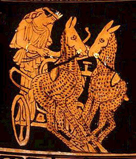 The ancient Greek goddess Artemis on her chariot drawn by two hinds. The goddess wears her bow in one hand and wears a veil and a crown. The detail is part of a larger scene depicting the death of the hunter Acteon devoured by his own hounds under the gaze of Artemis. Attic red-figure crater. Around 460-440 BC. Attributed to the Painter of the Woolly Satyrs. Vase in the Musée du Louvre, in Paris, France. Reference : Paris Ca3482. Beazley Archive number : 207101. Images transfered from the website. Info about this vase can be found on the Beazley Archive page.